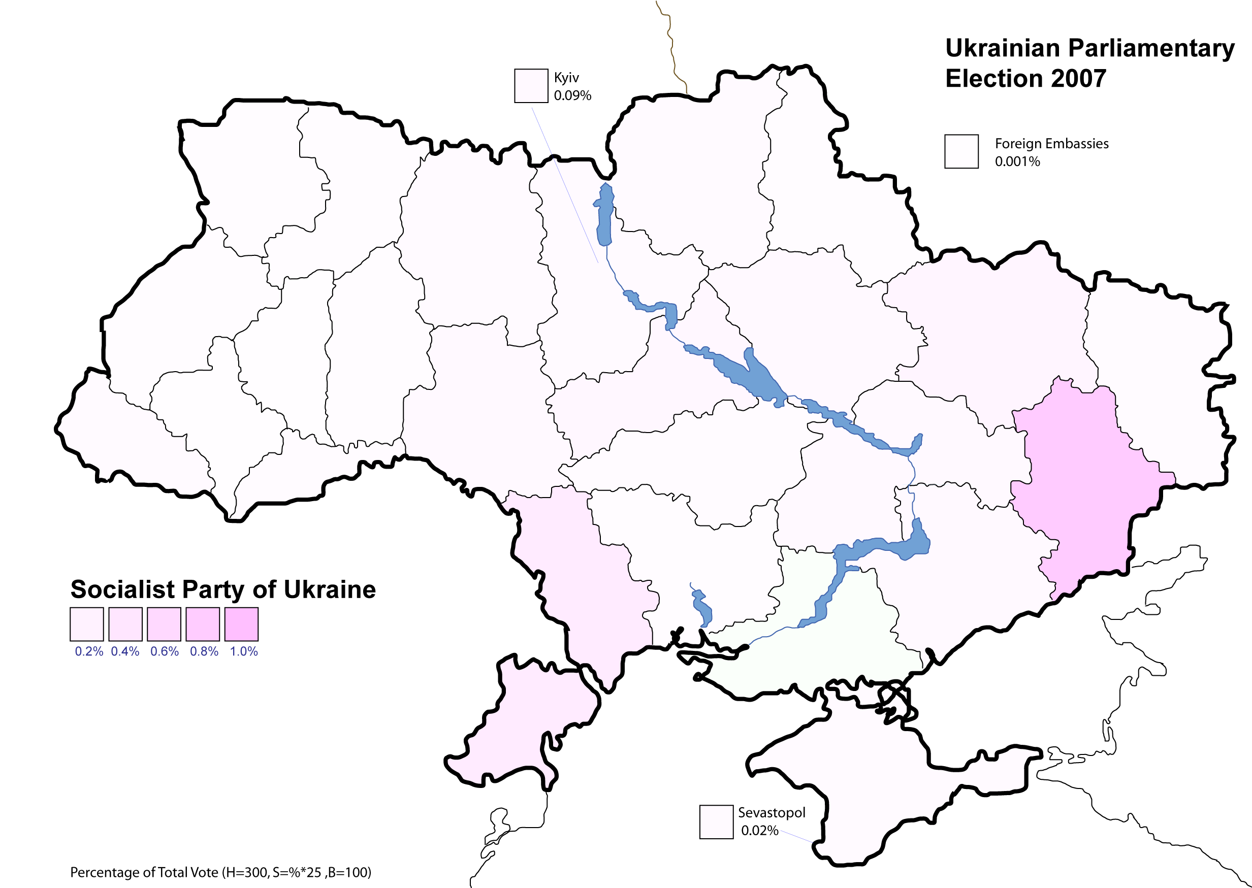 Ukrainian Parliamentary Election 2007 (SPU) Percentage of total national vote (minimal text)